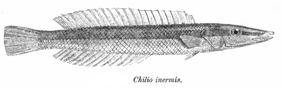 Chilio inermis [sic] = Cheilio inermis (Forsskål, 1775)